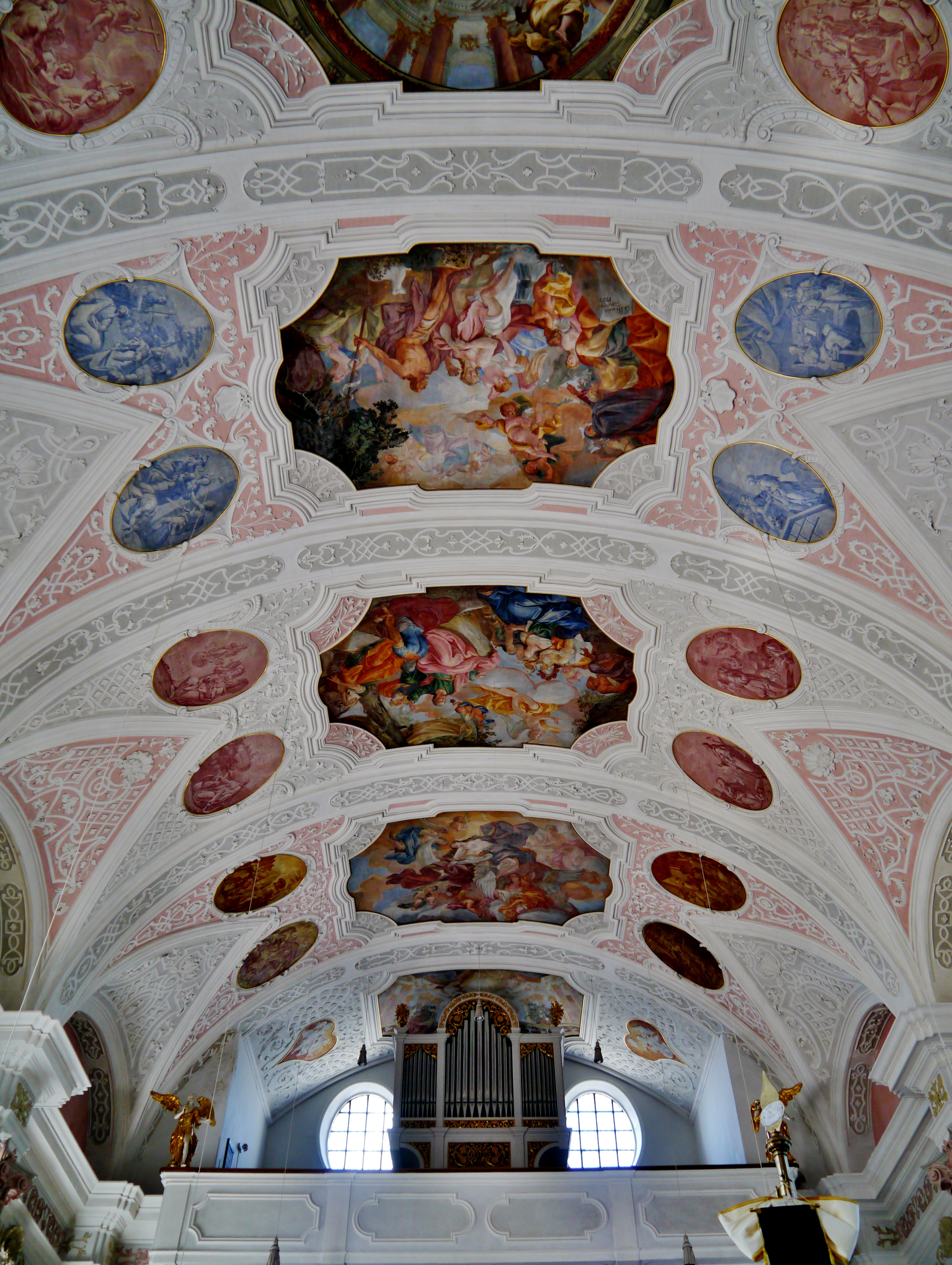 Vault of St. Mary Assumption, St. Johann in Tirol, Tyrol, Austria